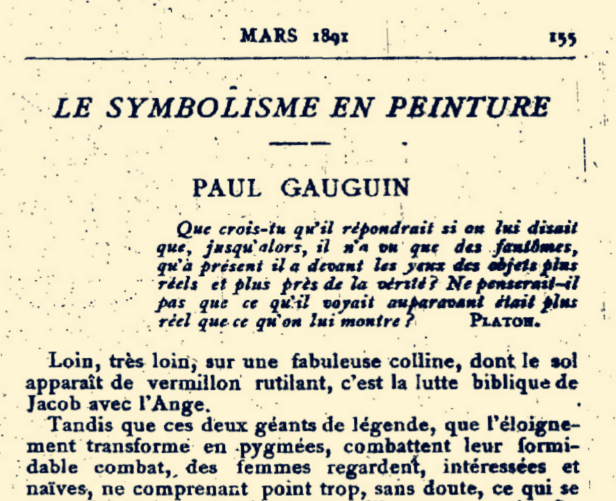 Mercure de France - 1891- Aurier-incipit